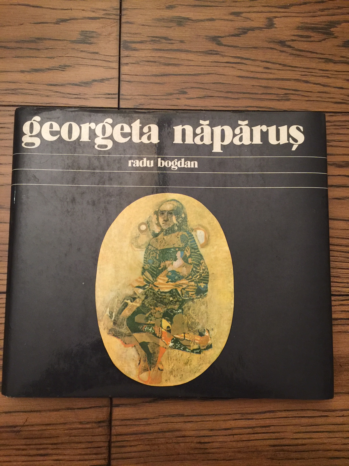 The cover of the monograph by Radu Bogdan, Editura Meridiane1983